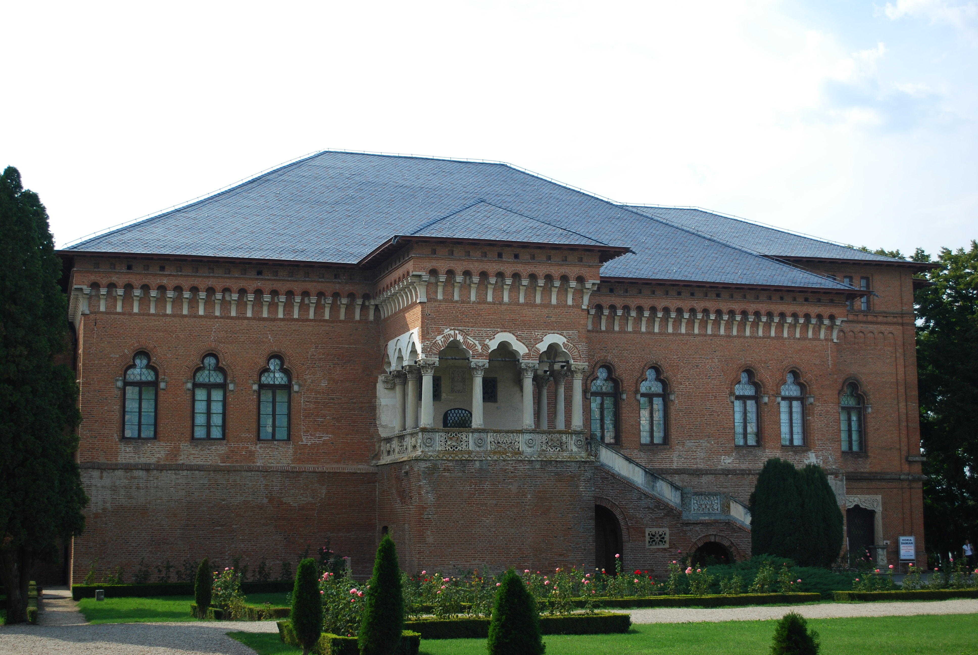 Mogoşoaia Palace in Mogoşoaia, Ilfov County, Romania - front view